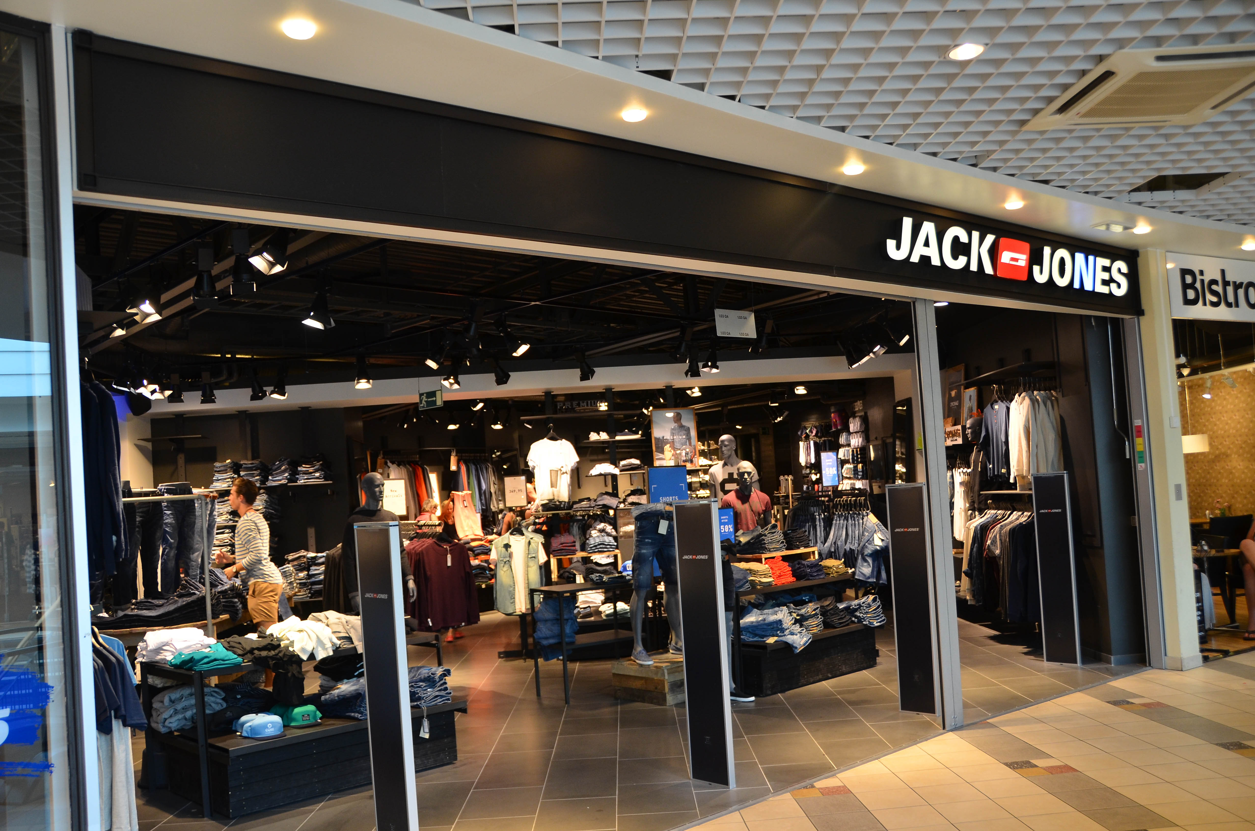 Jack & Jones in Citykompaniet, a shopping mall in Skellefteå, Sweden.